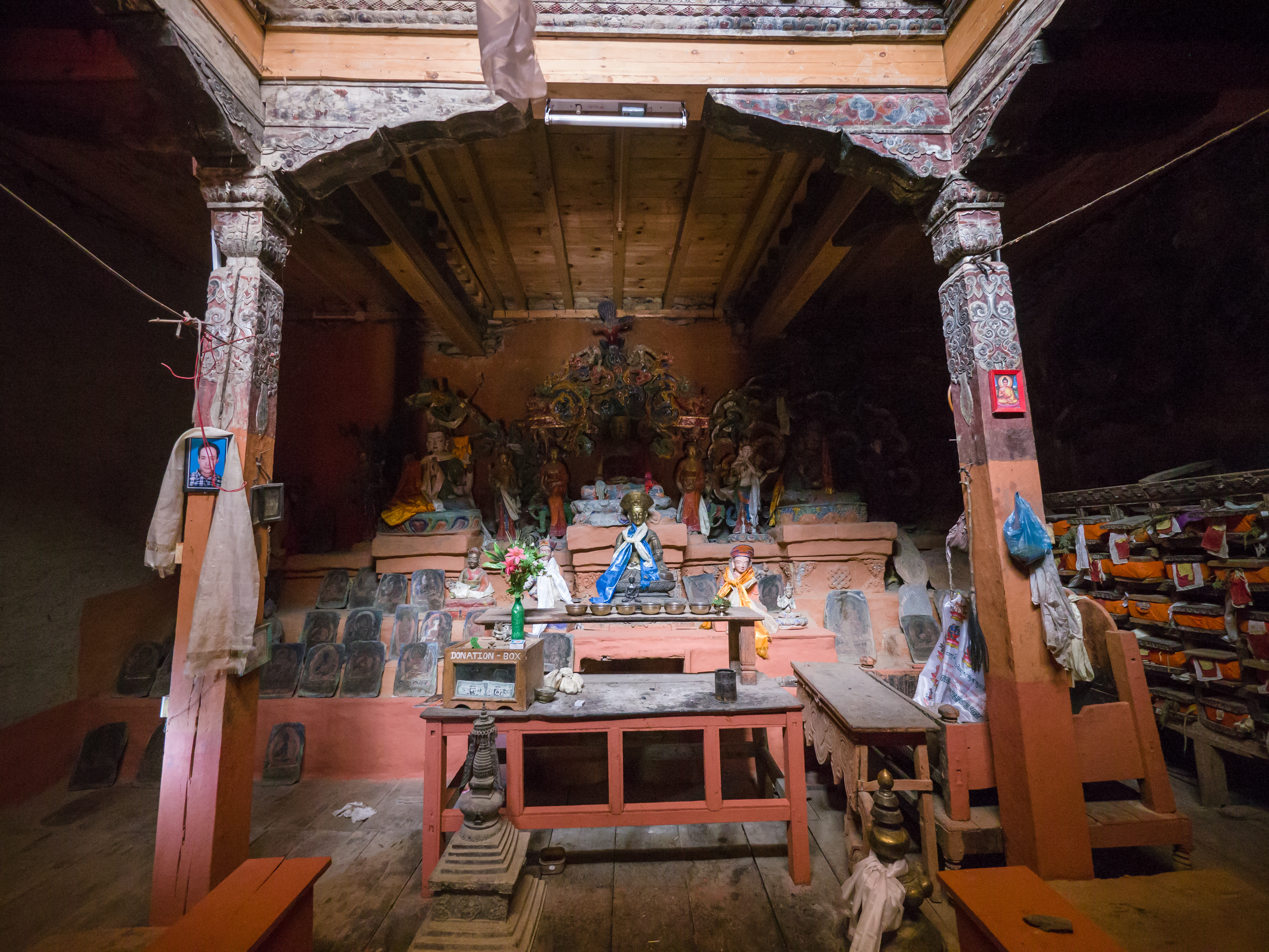 Inside the 300-year-old Chhairo Gompa.